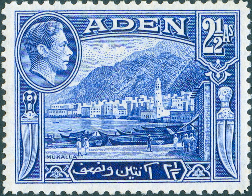 Aden 2 1/2-anna stamp of 1939